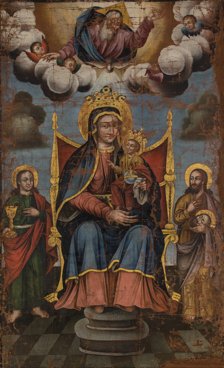 Holy Mather of God , Hovnatan Hovnatanian (1730-1801), National gallery of Armenia